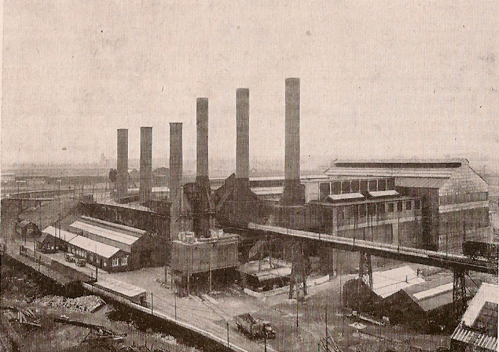 Carville power station near Newcastle upon Tyne